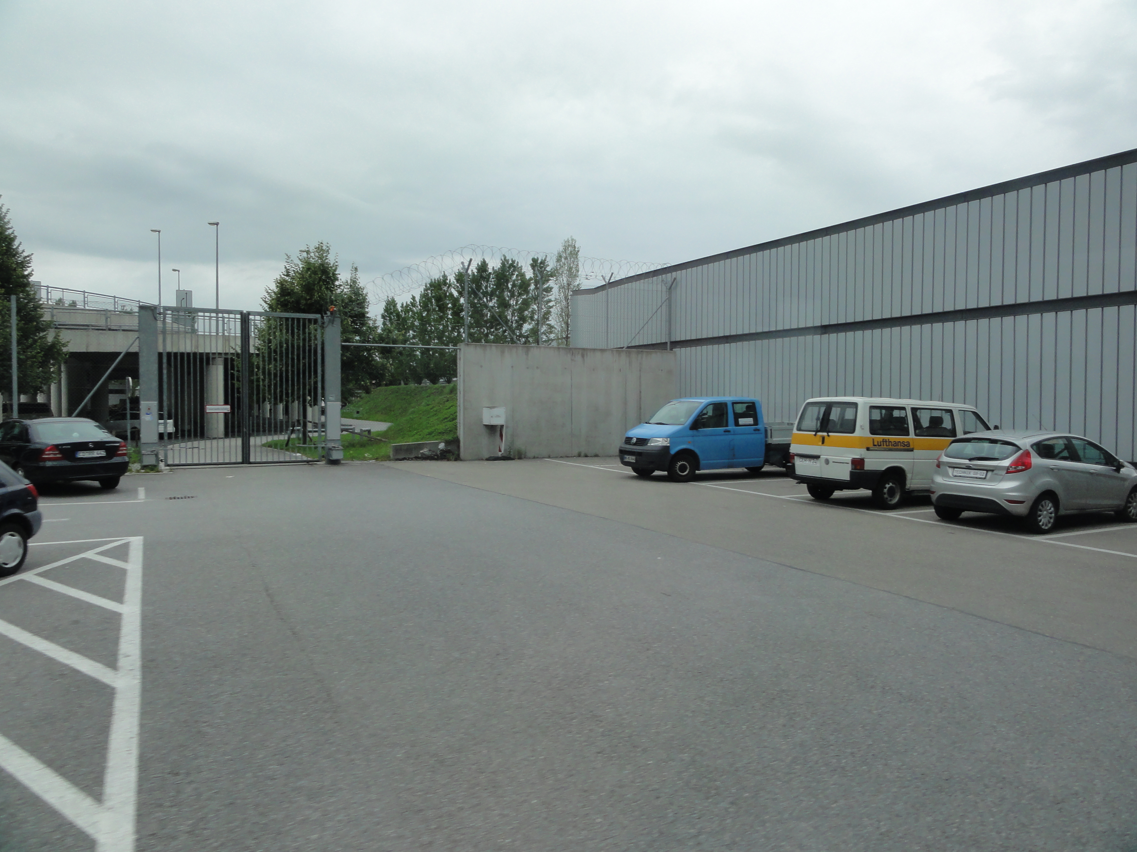 Franz Josef Strauss International Airport (Munich) — Building F